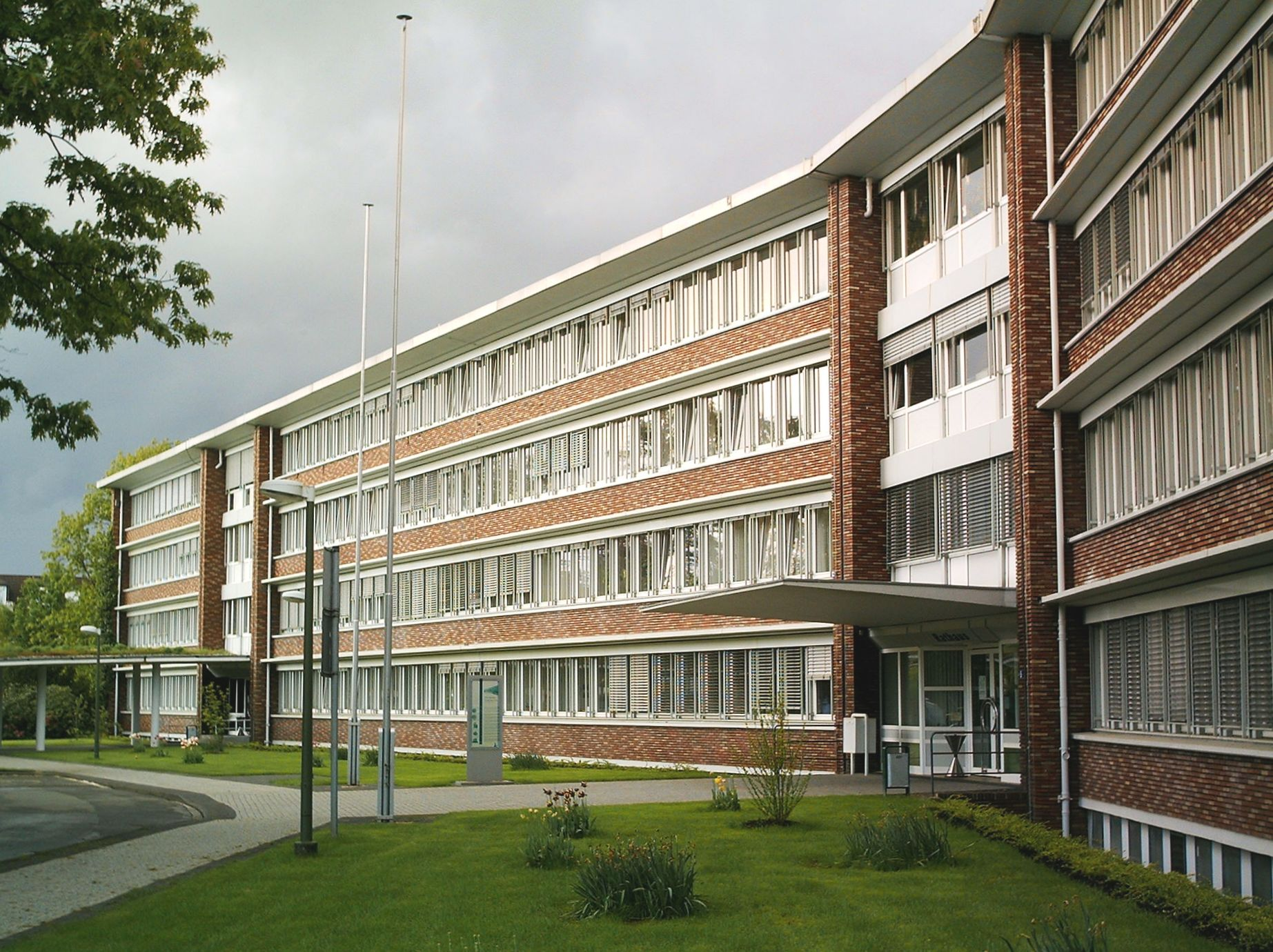 City hall of Dorsten, Germany.